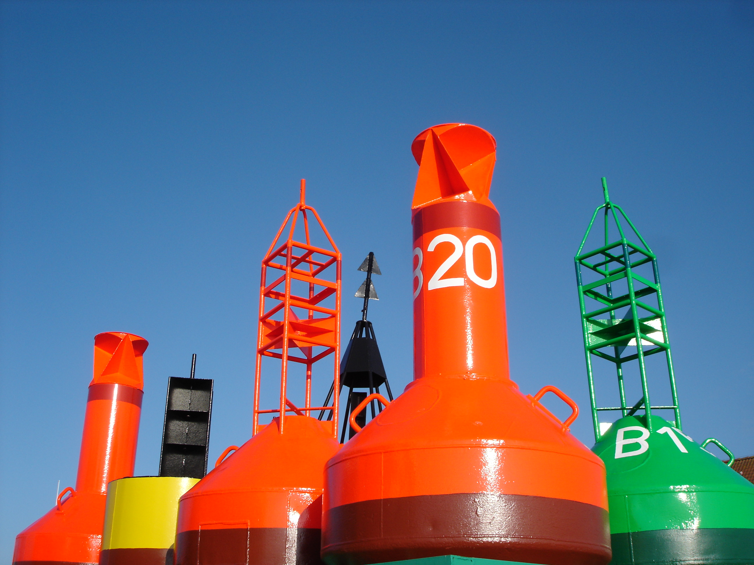 Buoys in the port of Norderney